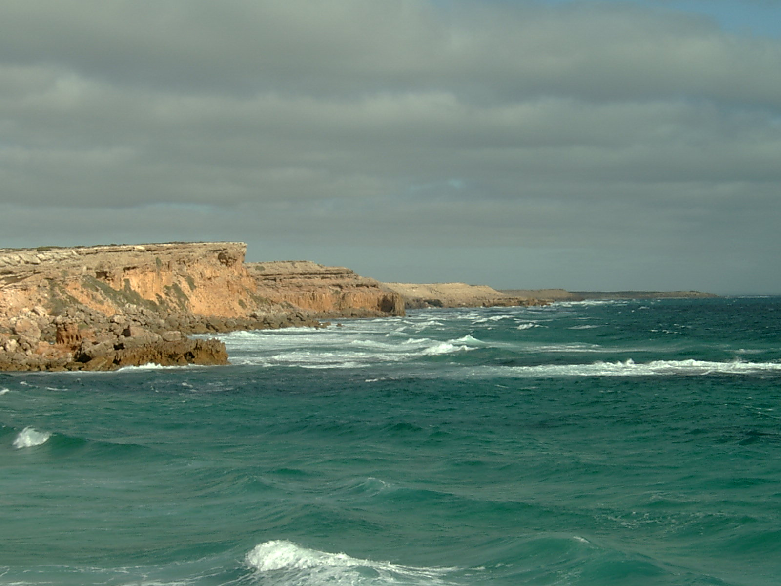 January 2007.